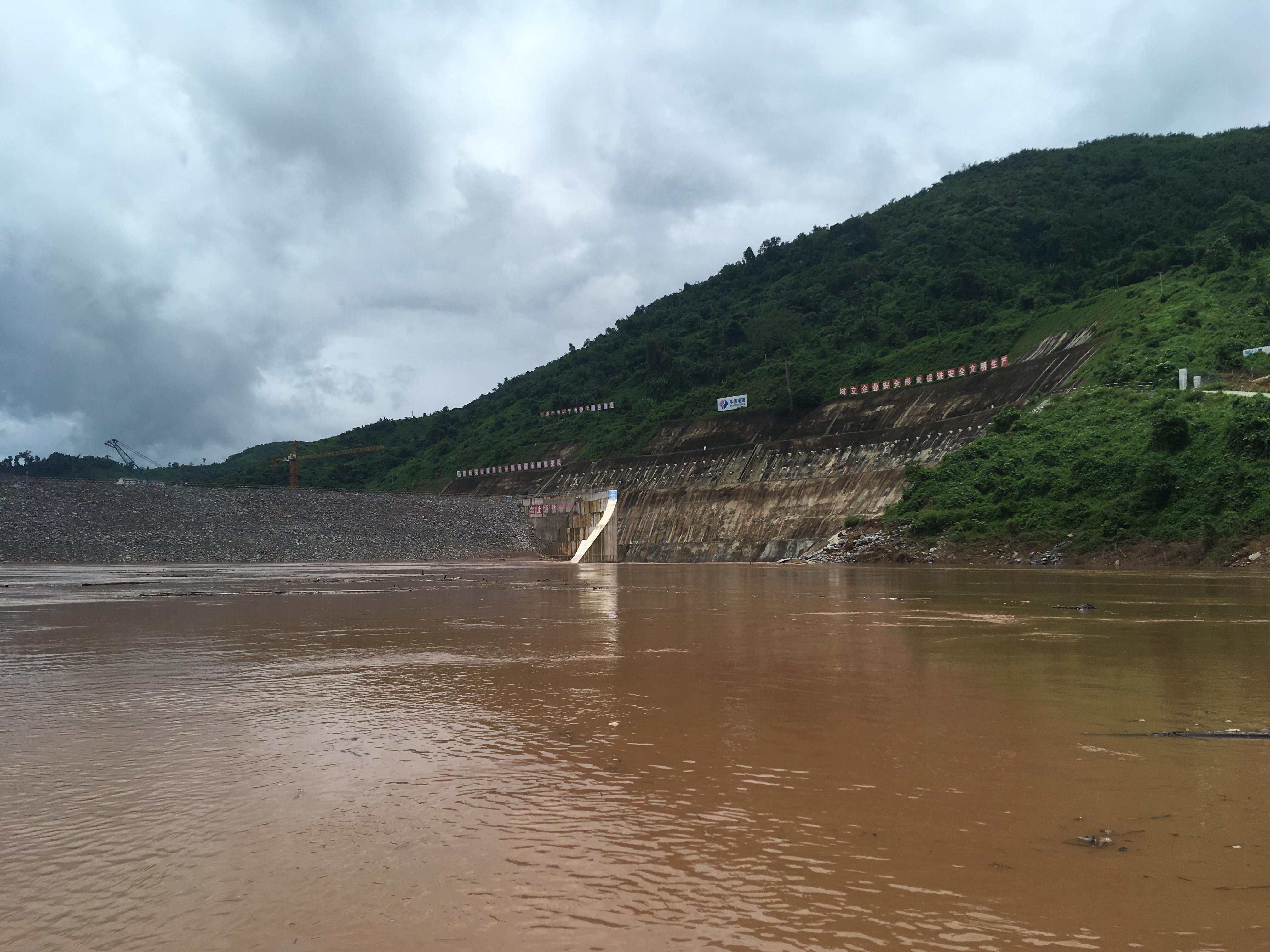 The Nam Ou 3 Dam between Muang Khua and Muang Ngoi Neua.